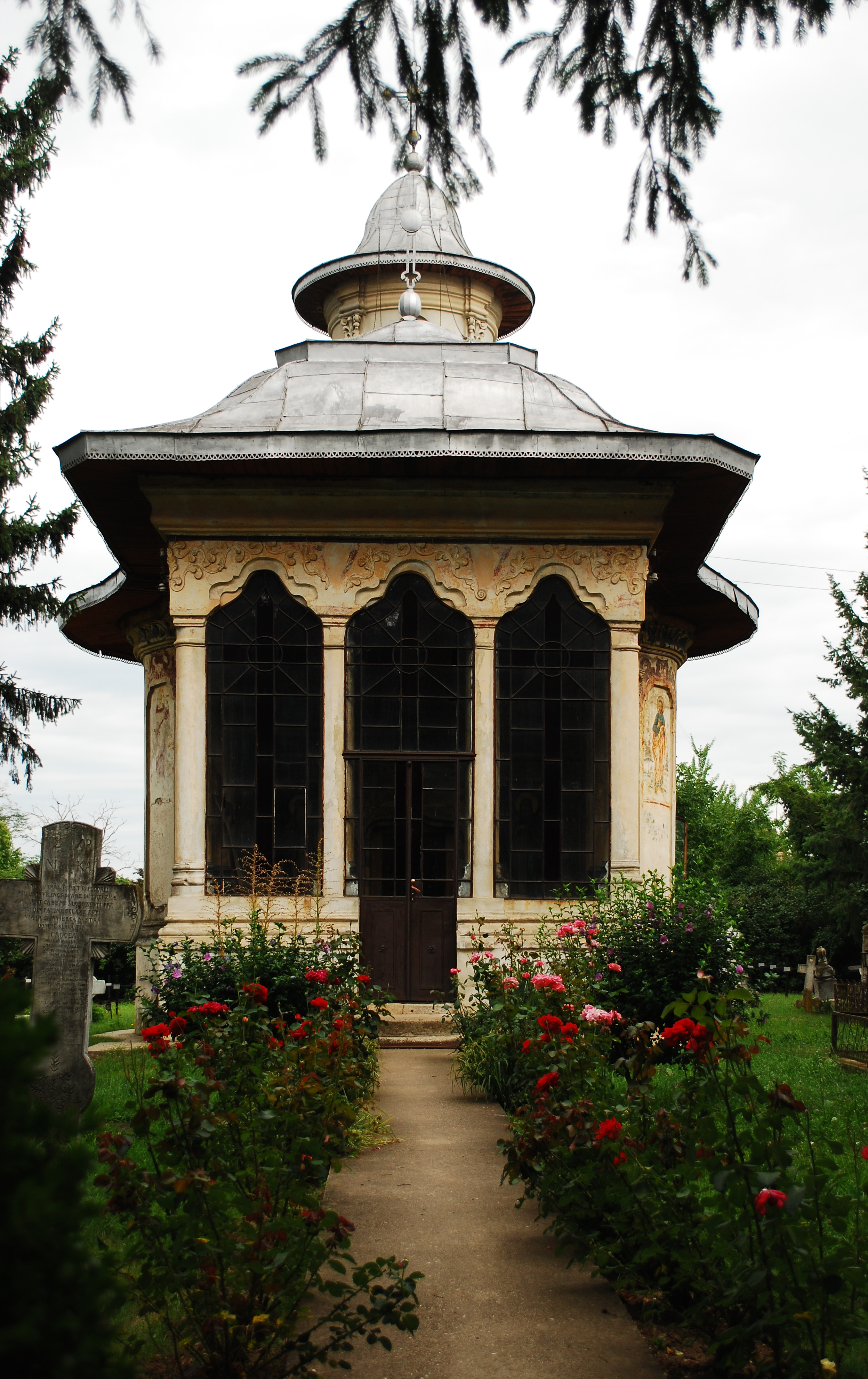 Church of John the Evangelist in the cemetery of Căldăruşani monastery, Ilfov County, Romania 02